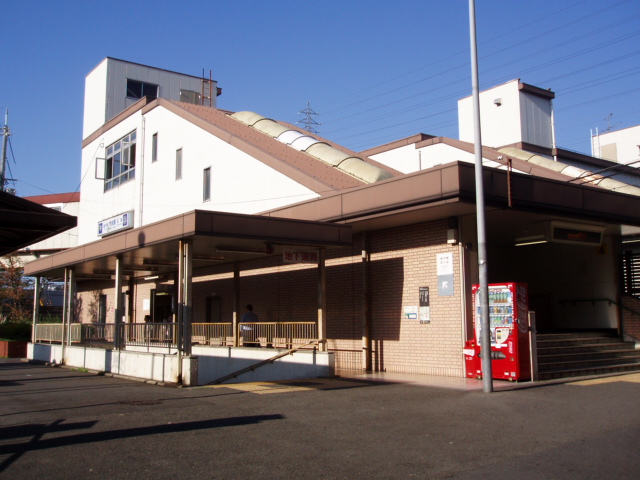 Kyoto Municipal Transportation Bureau Karasuma Line & Kinki Nippon Railway Takeda Station Building North Gate